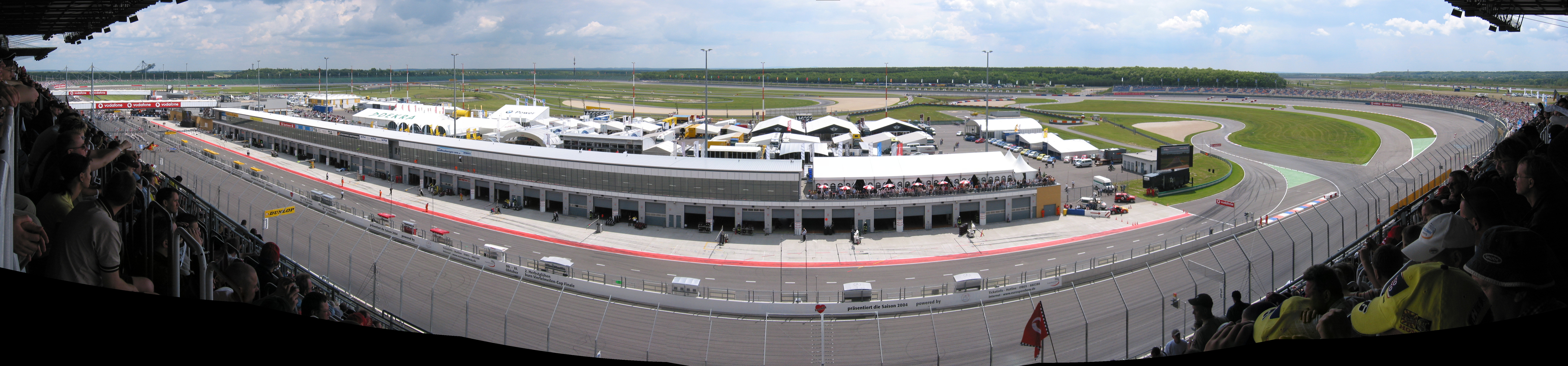 Panoramic view of the EuroSpeedway Lausitz, Germany. In the foreground is the circuit and the pit lane. Picture taken from the grandstand before the start of the DTM race 2004.